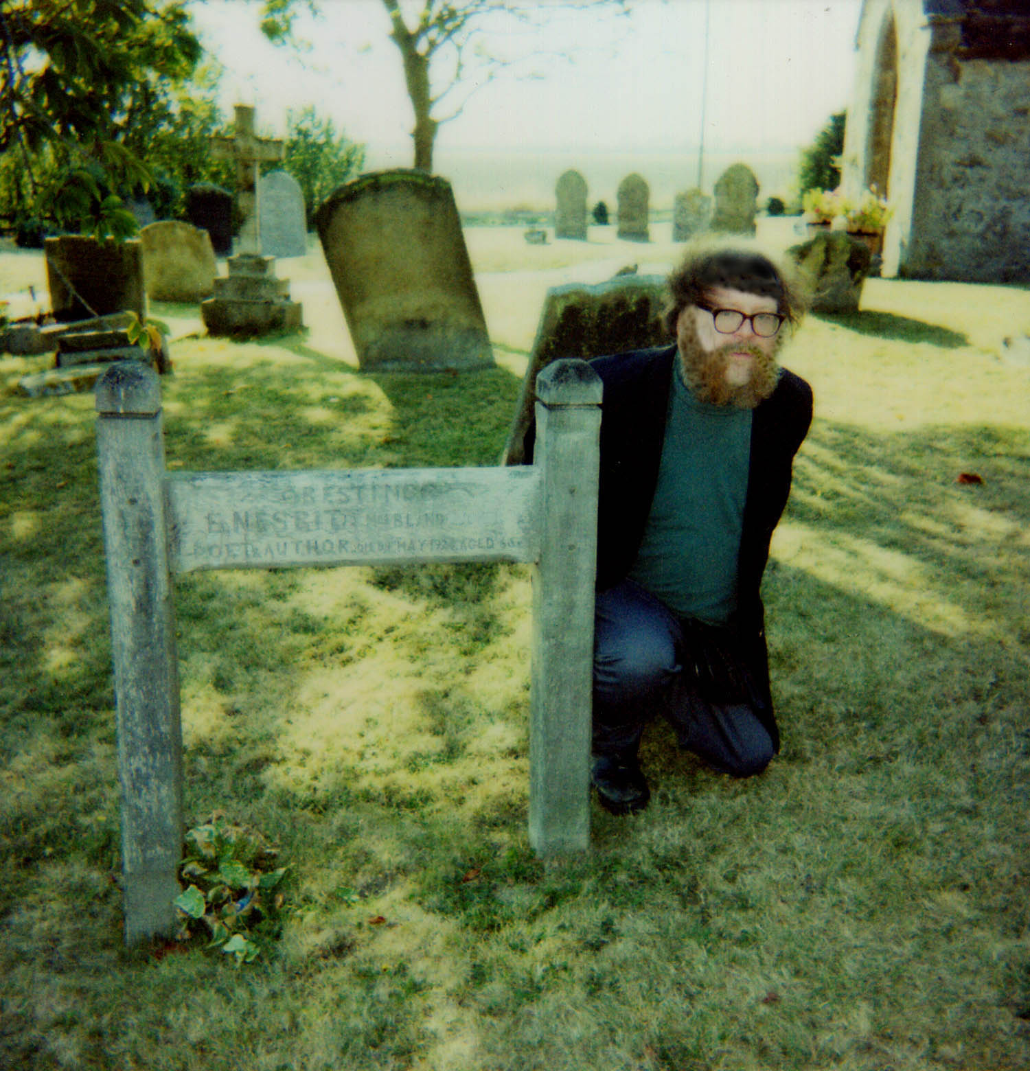 I took this photo myself. You are free to use it.